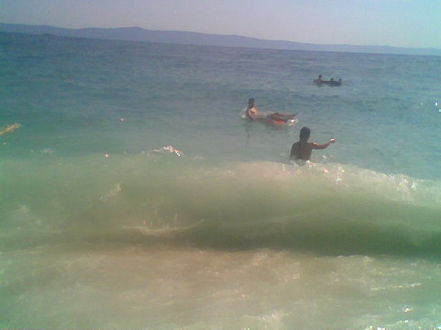 This picture was created on location Tučepi.